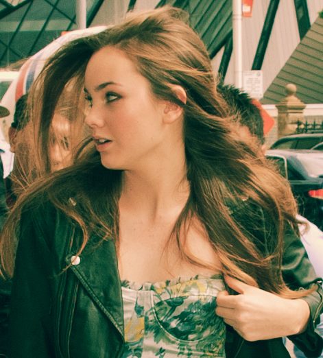 Liana Liberato at the 2010 Toronto International Film Festival for the movie Trust.